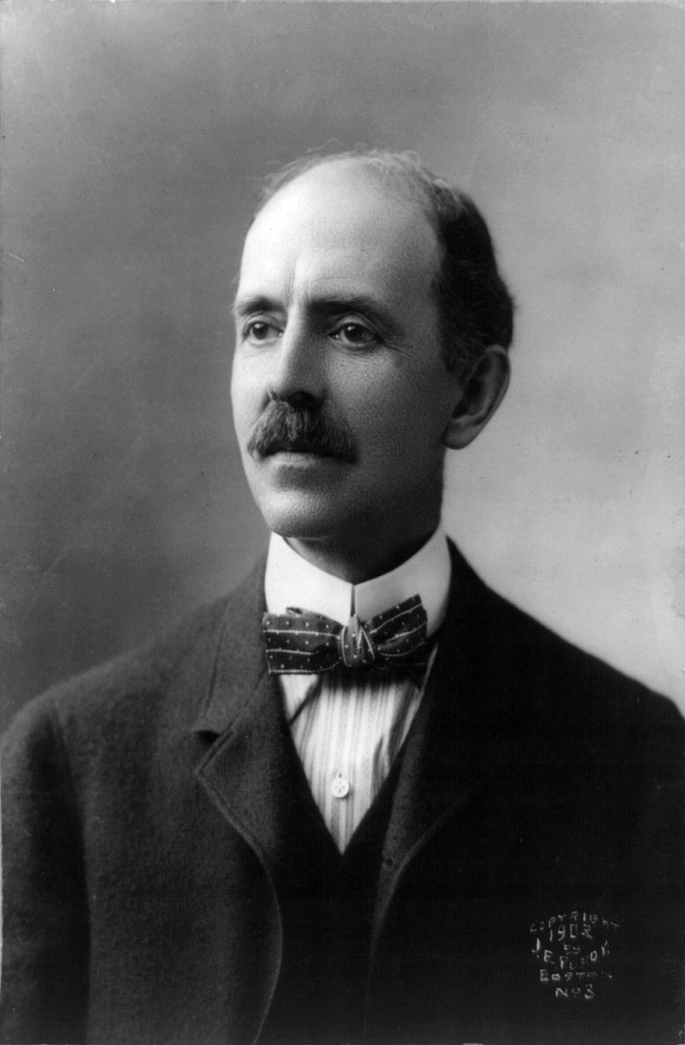 Daniel Chester French, American sculptor